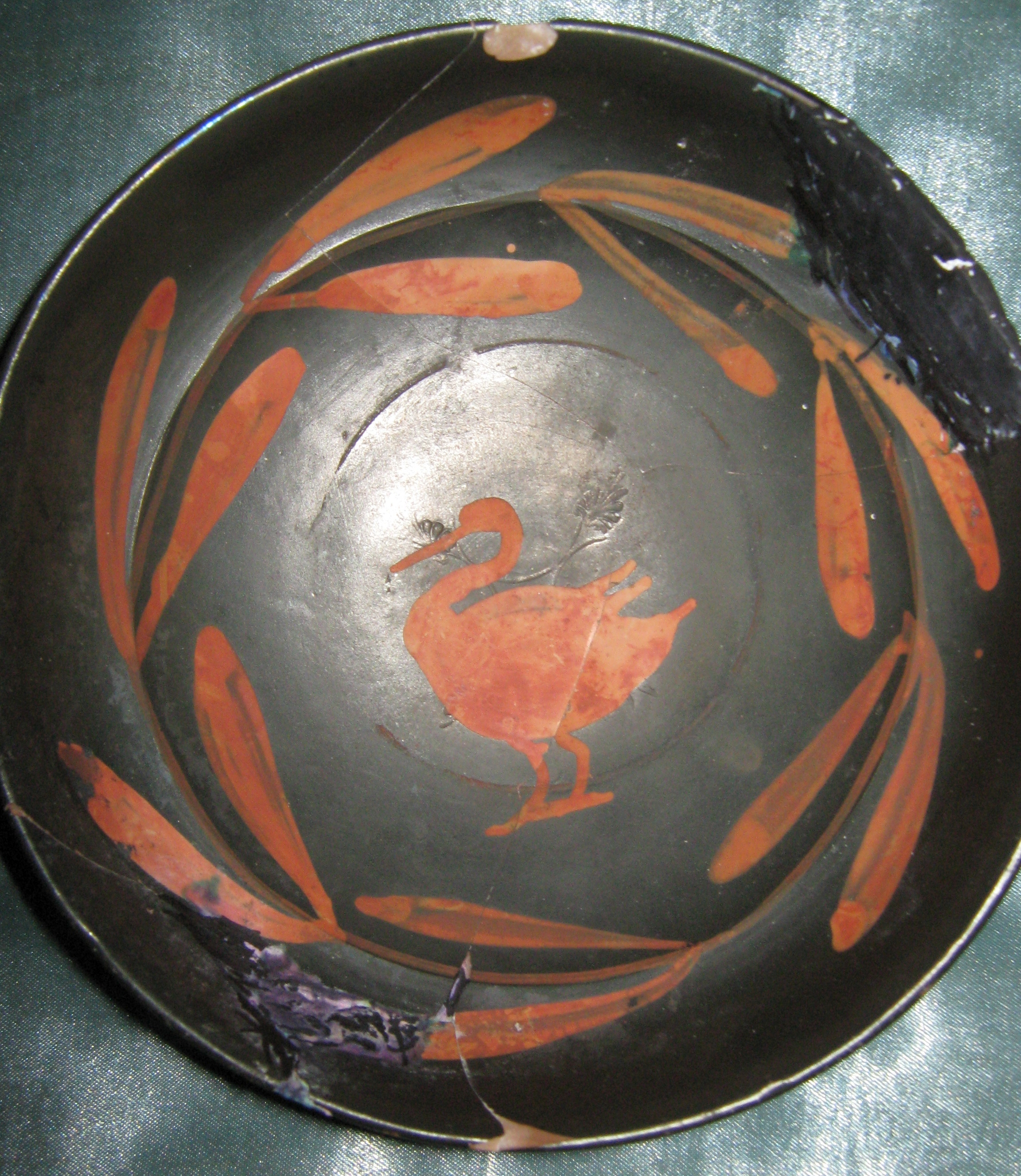 Kylix by the Red-Swan-Group (Xenon Group), Tondo, late 4.Century B.C., from private collection